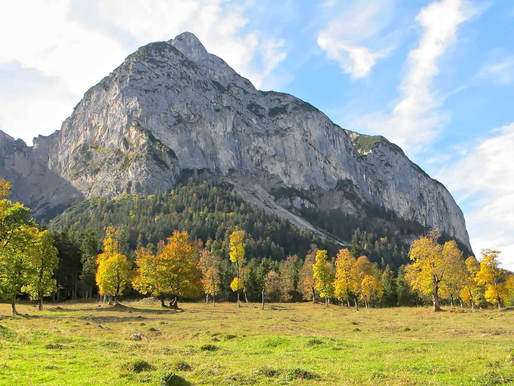 Valley Großer Ahornboden